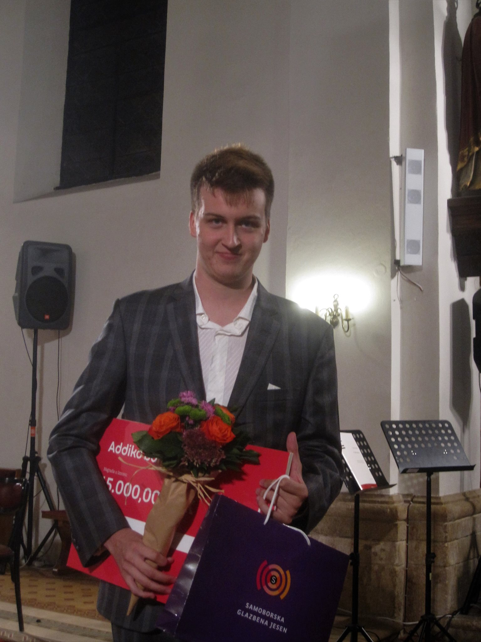 Award-winning Croatian classical pianist Ivan Vihor shortly after winning the absolute prize at the Ferdo Livadic music competition in Samobor,Croatia.